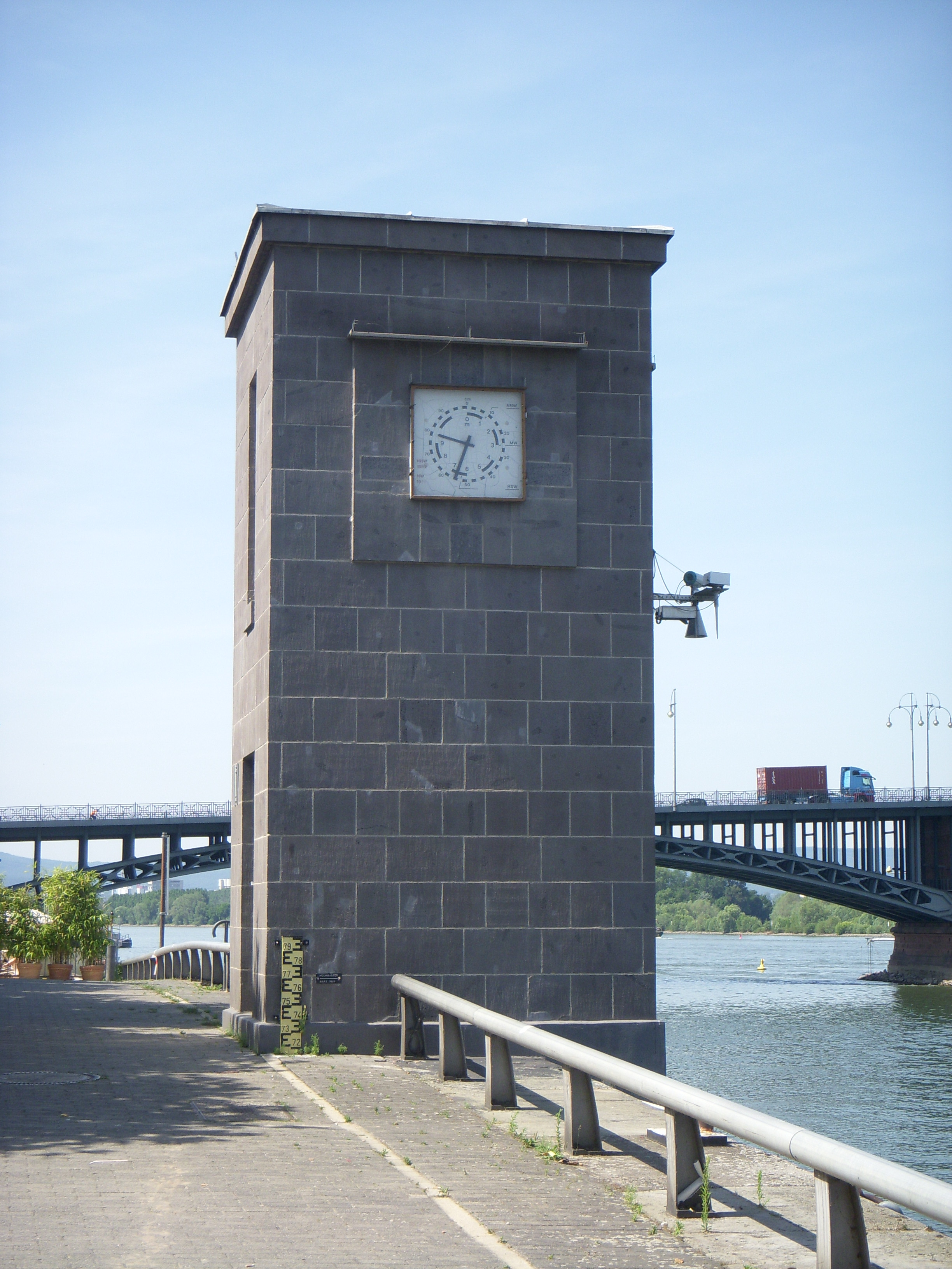 River Rhine stream gauge Mainz, analogue display